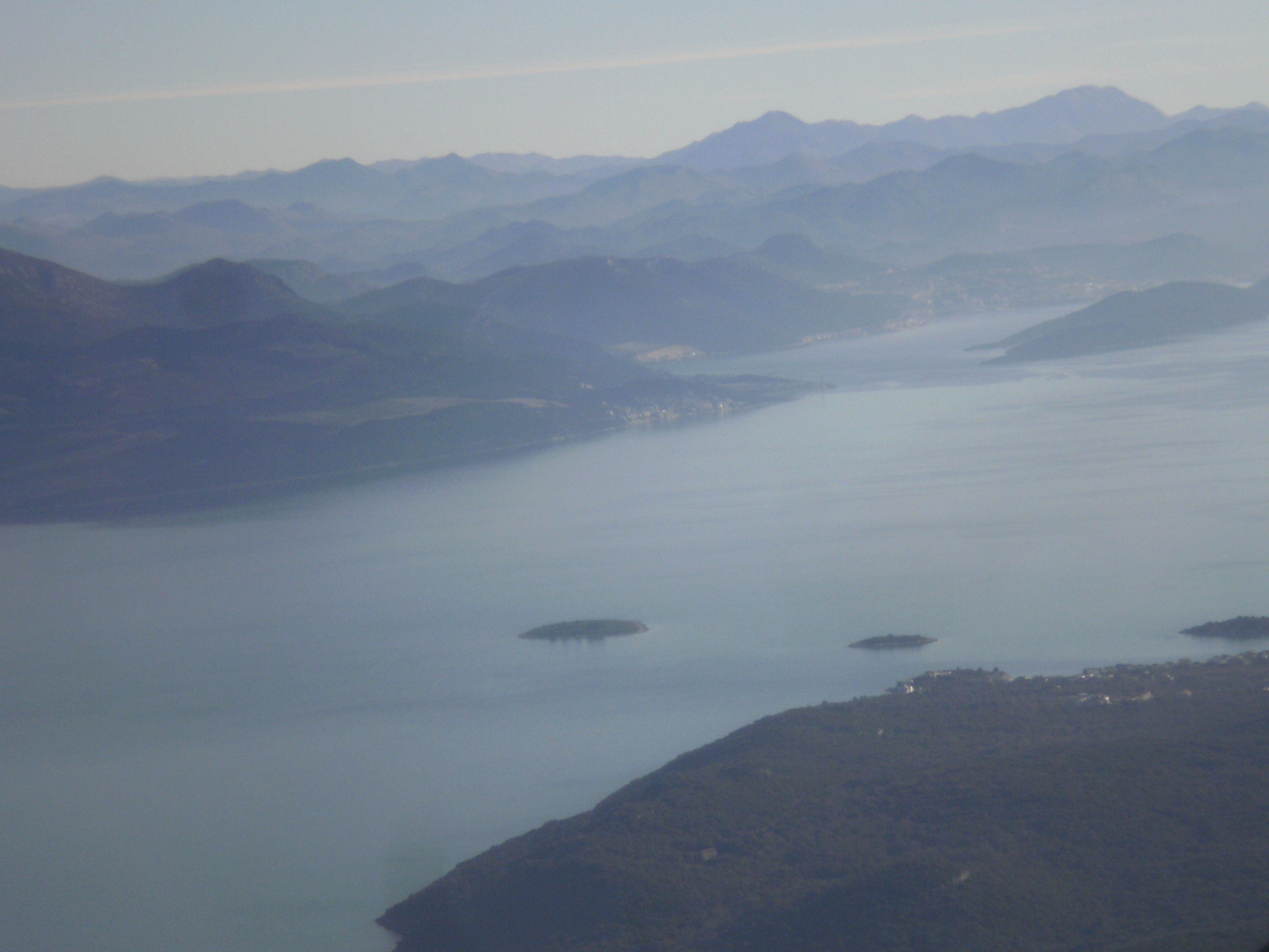 Neretva channel from Pelješca OLYMPUS DIGITAL CAMERA